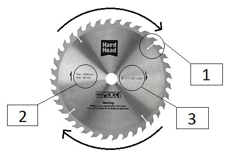 This is a picture that informs about circular saw blade. By: User:Essve